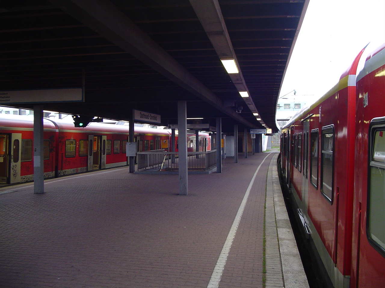 Dortmund-Dorstfeld S-Bahn station, Germany